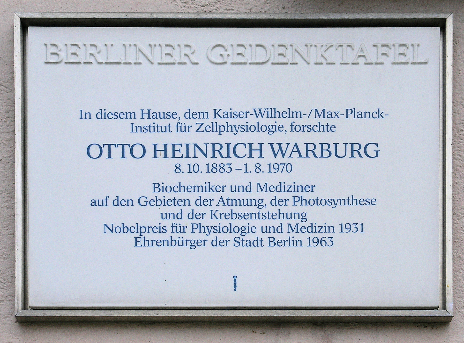 Berlin memorial plaque, Otto Heinrich Warburg, Boltzmannstraße 14, Berlin-Dahlem, Germany Koordinate:52°26′48″N 13°16′40″E / 52.44667°N 13.27778°E